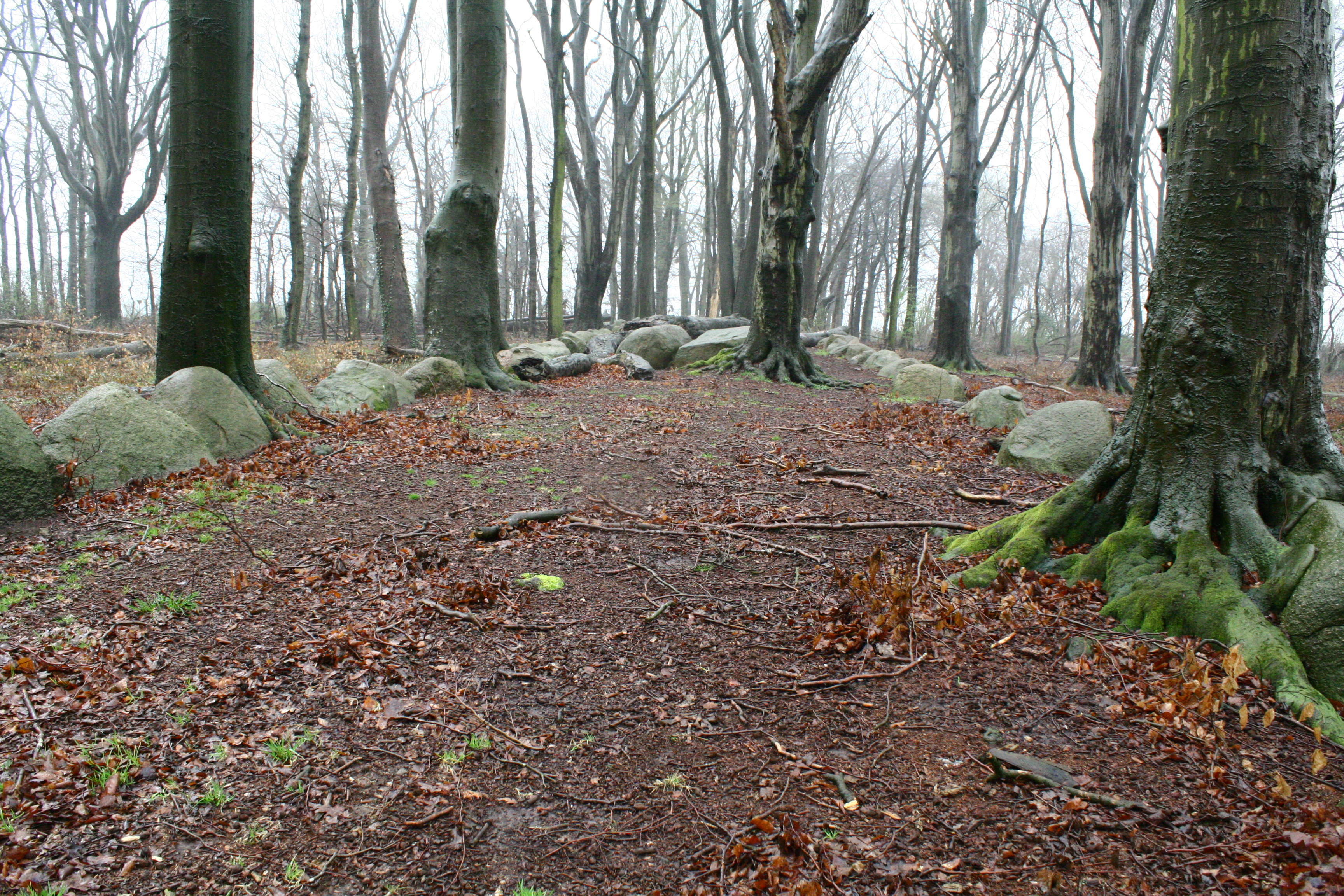 Megalithic tomb Bliedersdorf 1